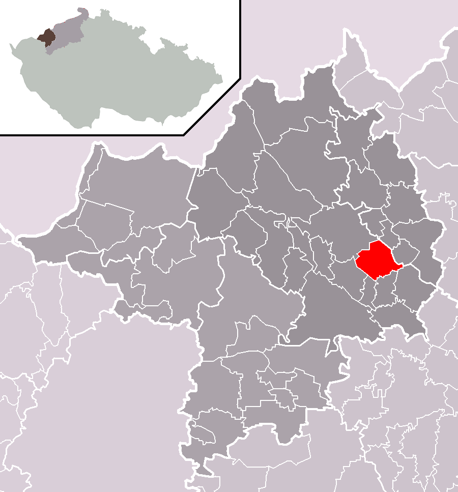 Location of Údlice municipality within Chomutov District and administrative area of Chomutov as a Municipality with Extended Competence.